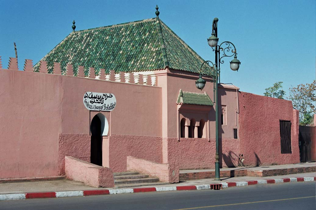 Yusuf bin Tashfin tomb , at Marrakesh in Morocco